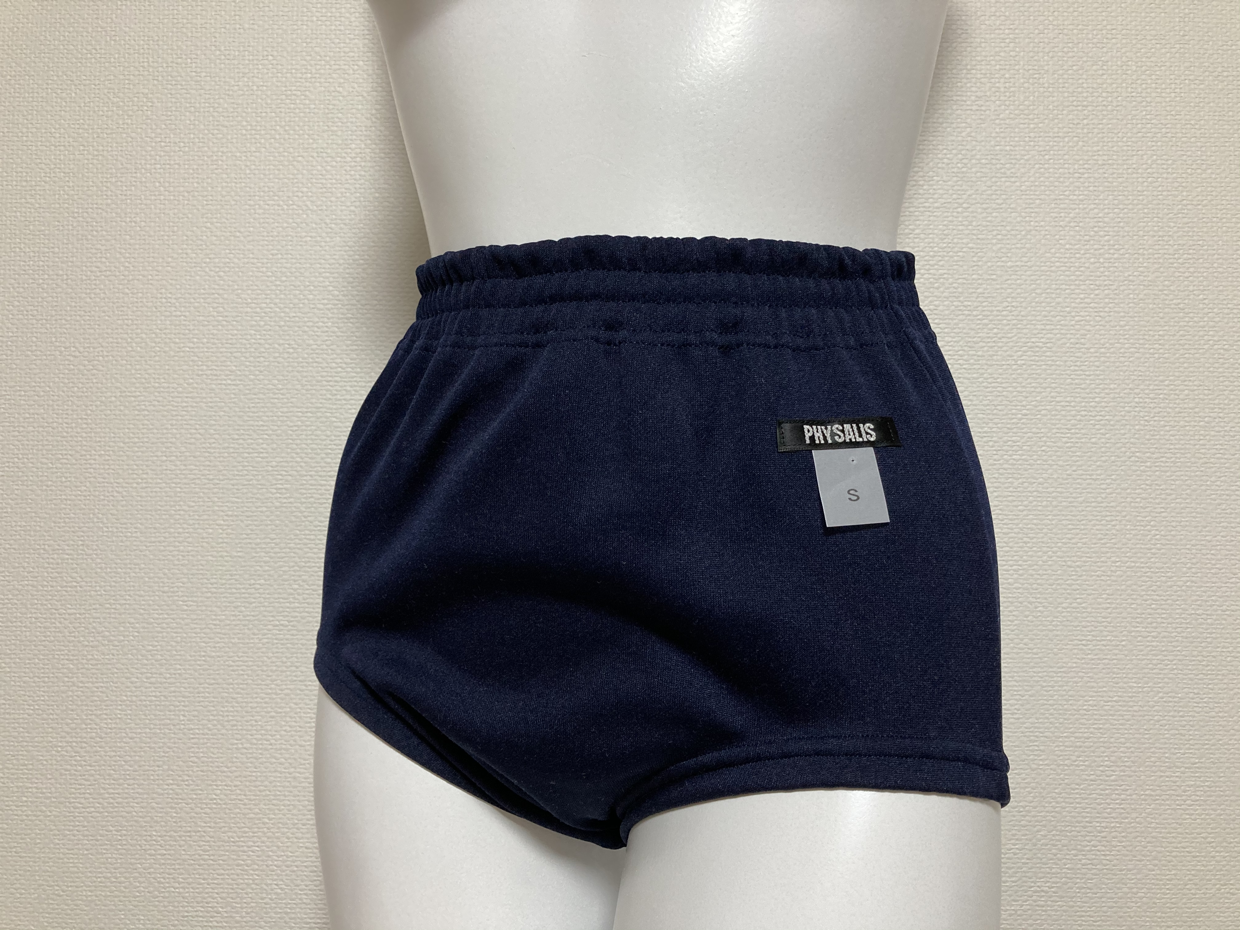 Physalis Bloomer low leg cut